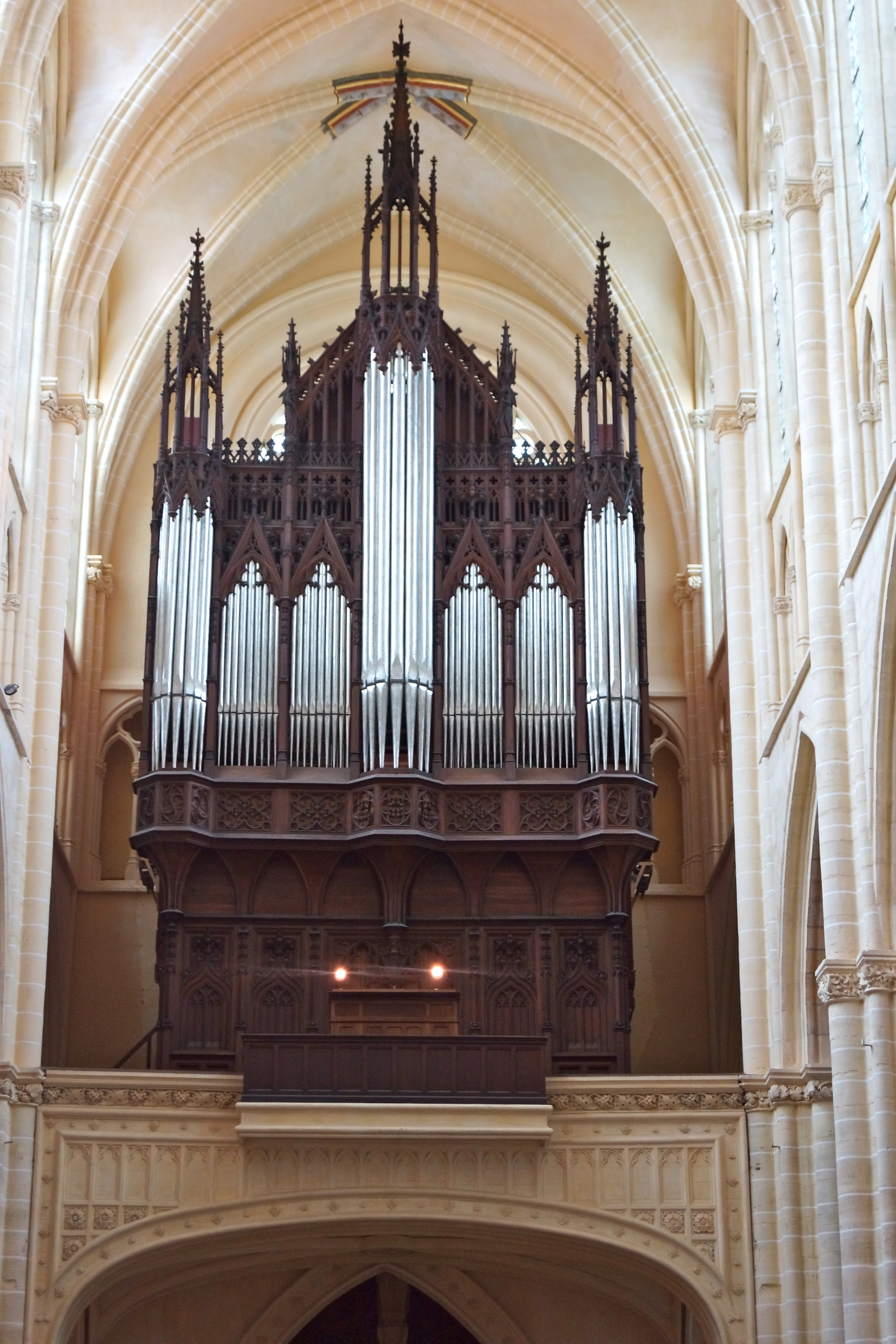 Organ case from front of the John Abbey great organ of cathedrale St Etienne Châlons en Champagne, France. Arveuf, 1848